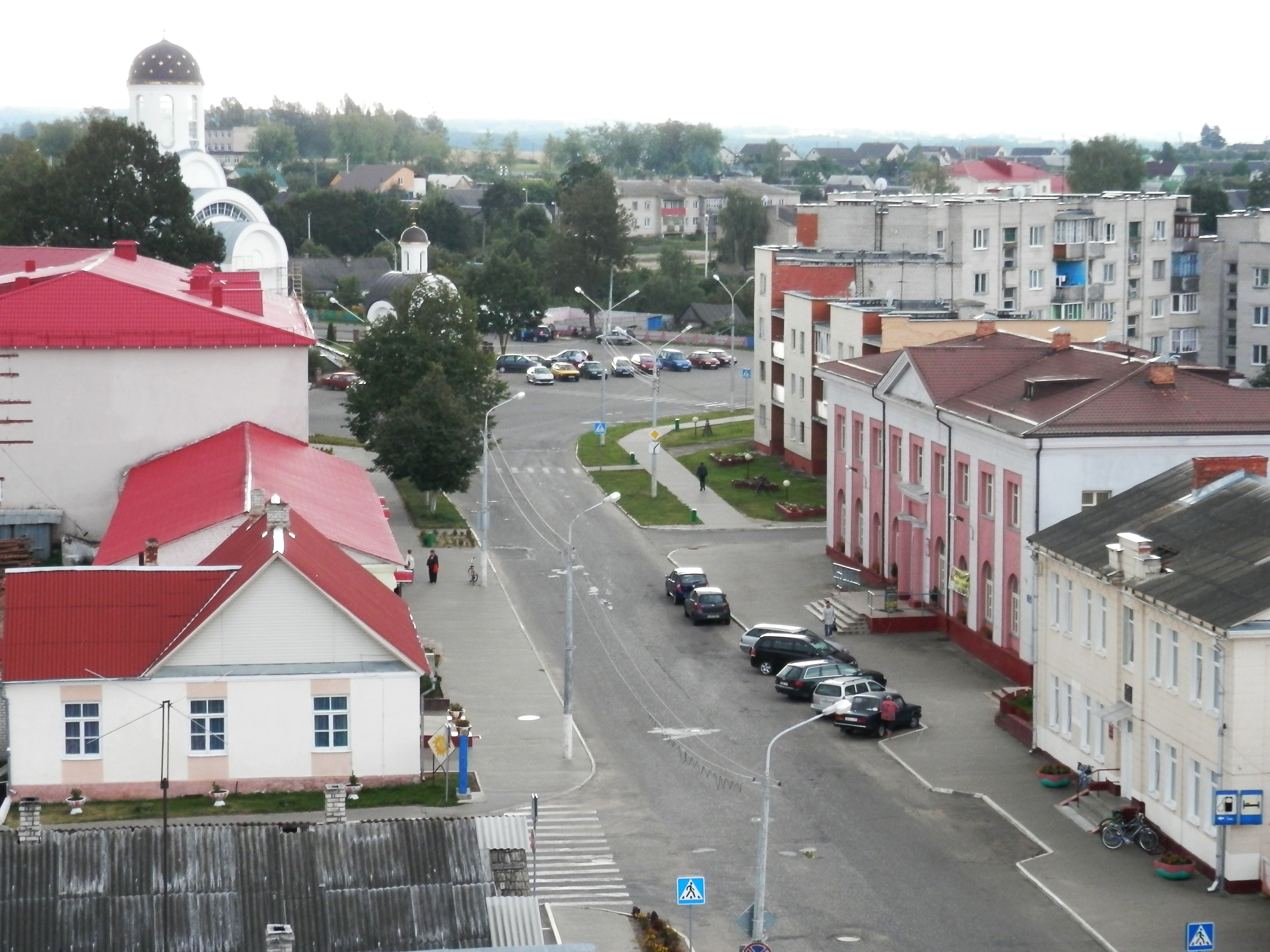 Ivianiec - in the town